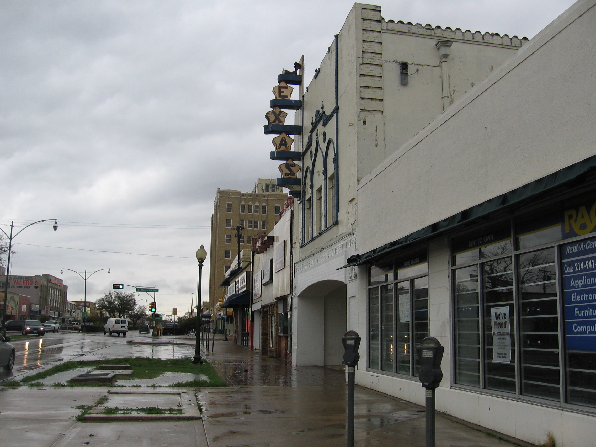 Texas Theatre, in Dallas, Texas, March 19, 2006 - Originally released in the public domain on the English Wikipedia